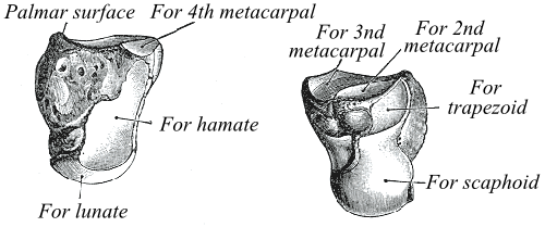 The left capitate bone.